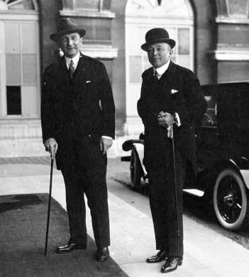 August Zaleski (1883-1972), Polish Minister of Foreign Affairs, and Alfred Chłapowski (1874-1940), Polish ambassador to France, in 1926.